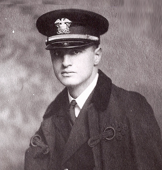 Chief Officer Harry Manning, United States LInes. Detail from a publiciy photograph taken in 1929 after the rescue of the crew from the Italian freighter Florida.